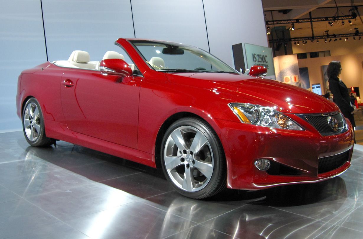 LA Auto Show